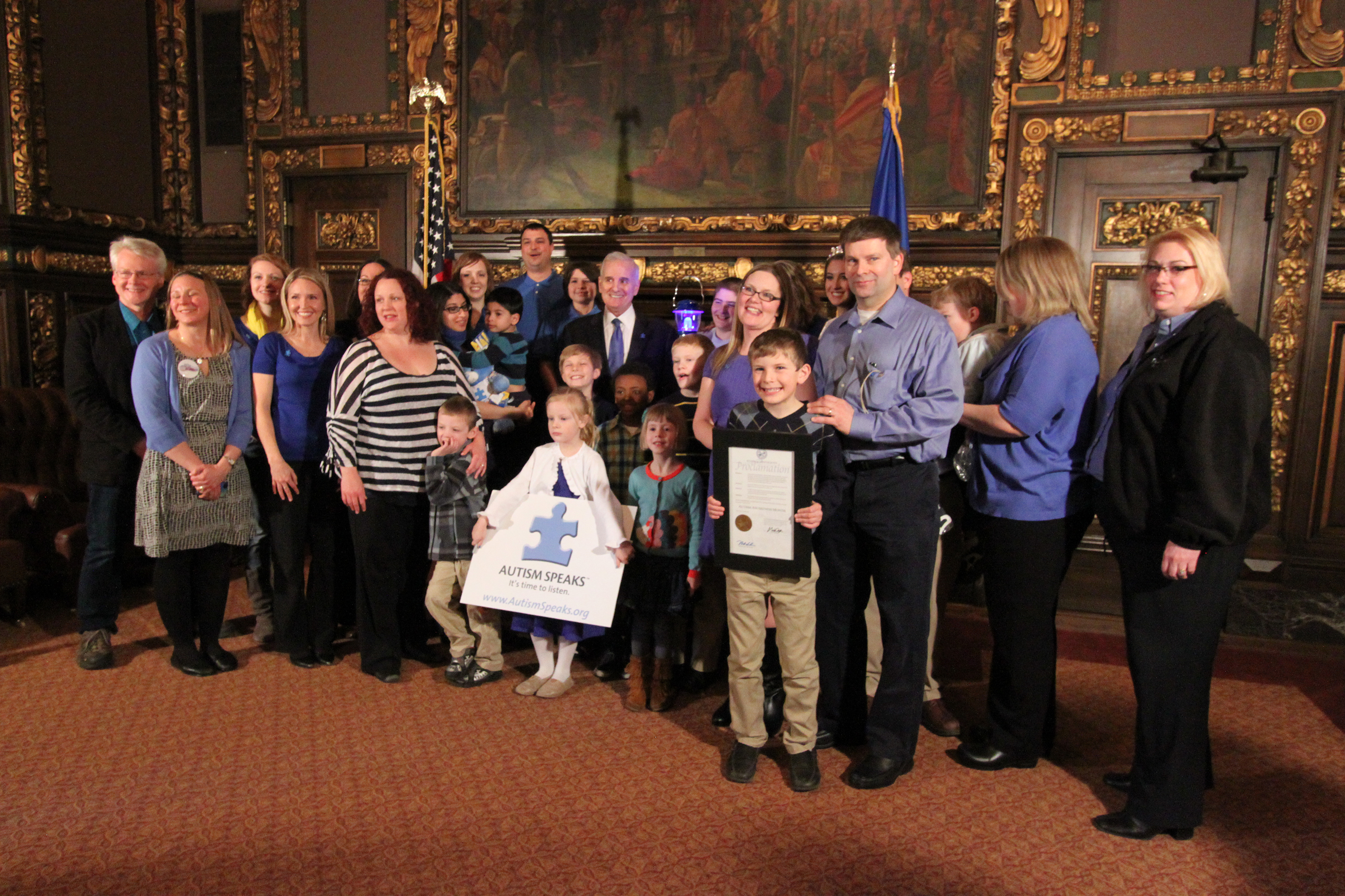 Light it Up Blue - World Autism Awareness Day